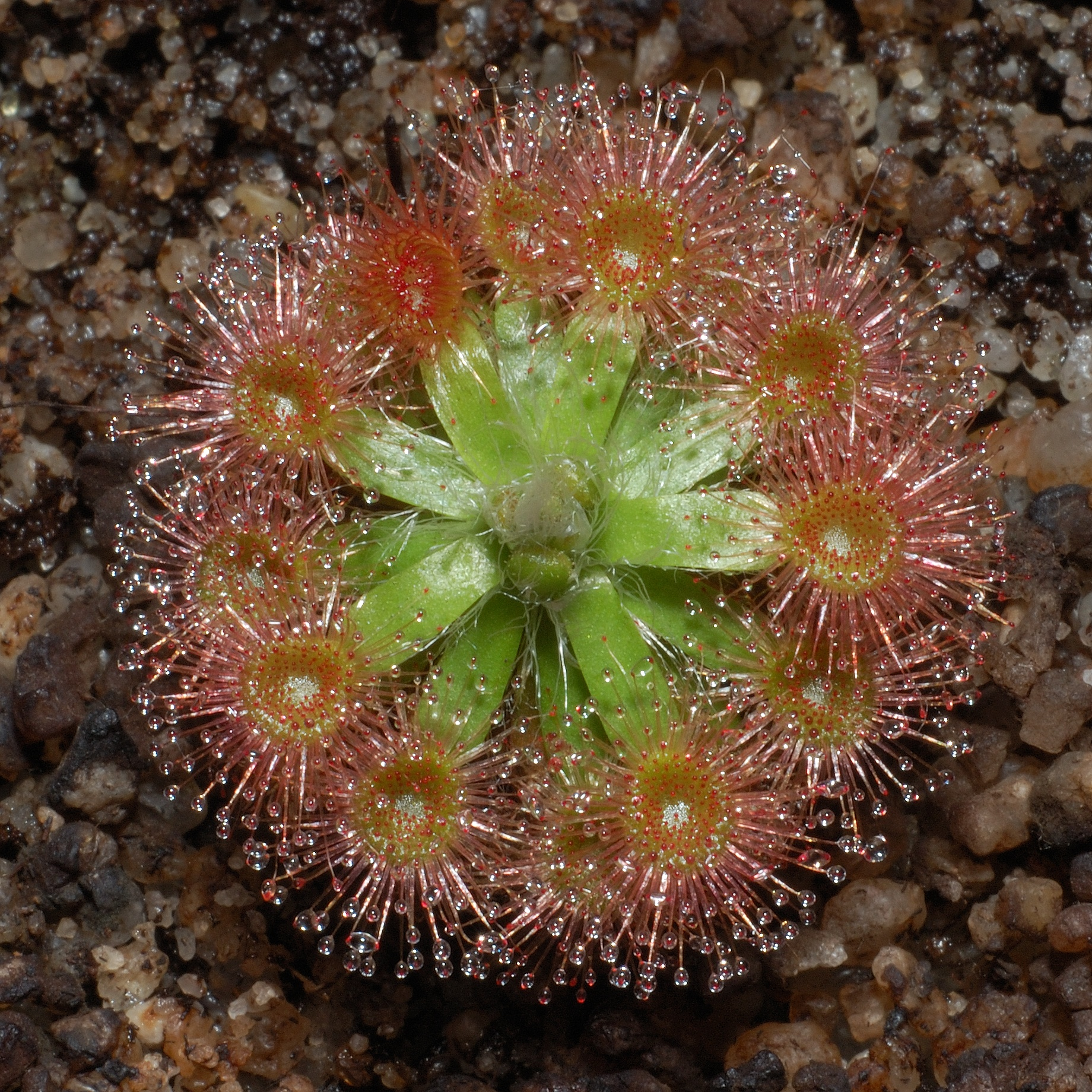 tentacles of Drosera pulchella